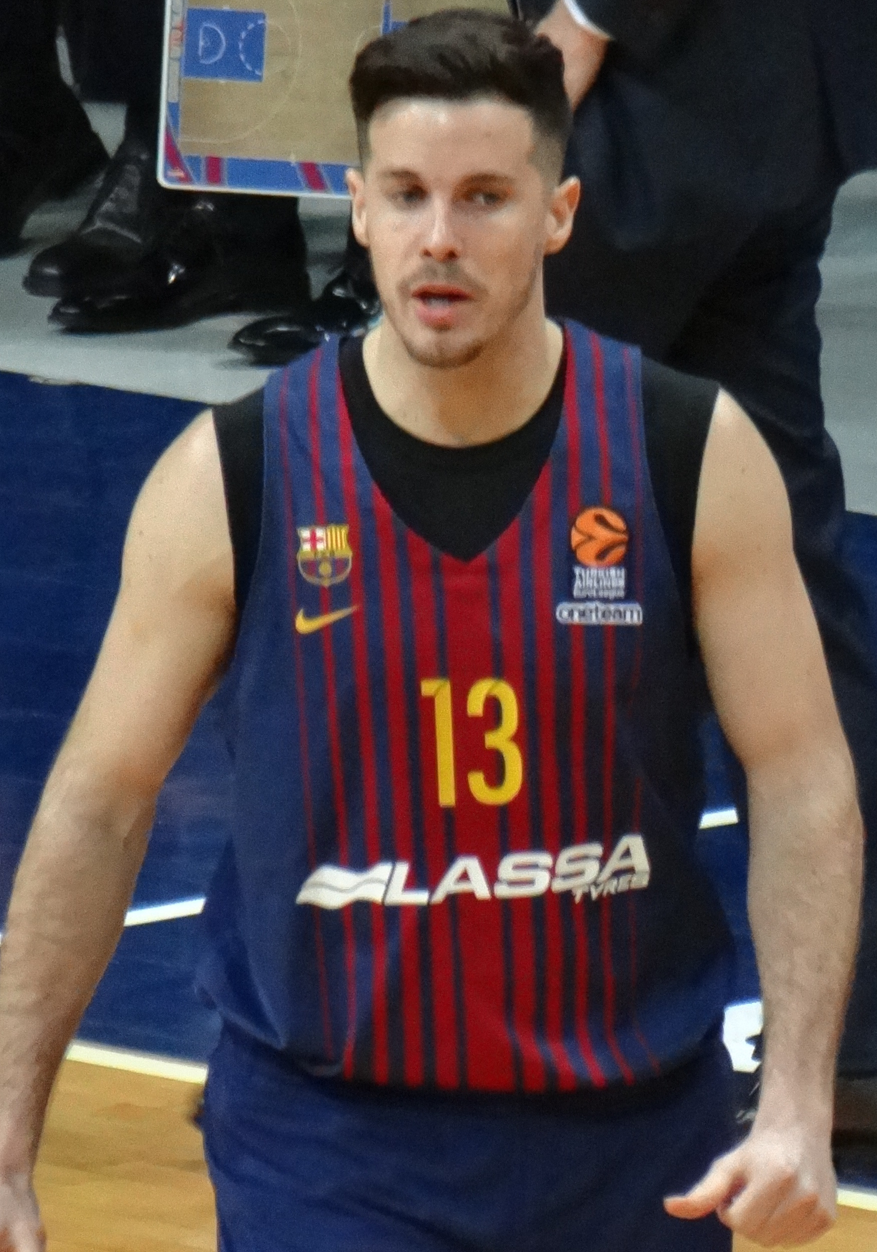 Thomas Heurtel 13 FC Barcelona Bàsquet 20180126